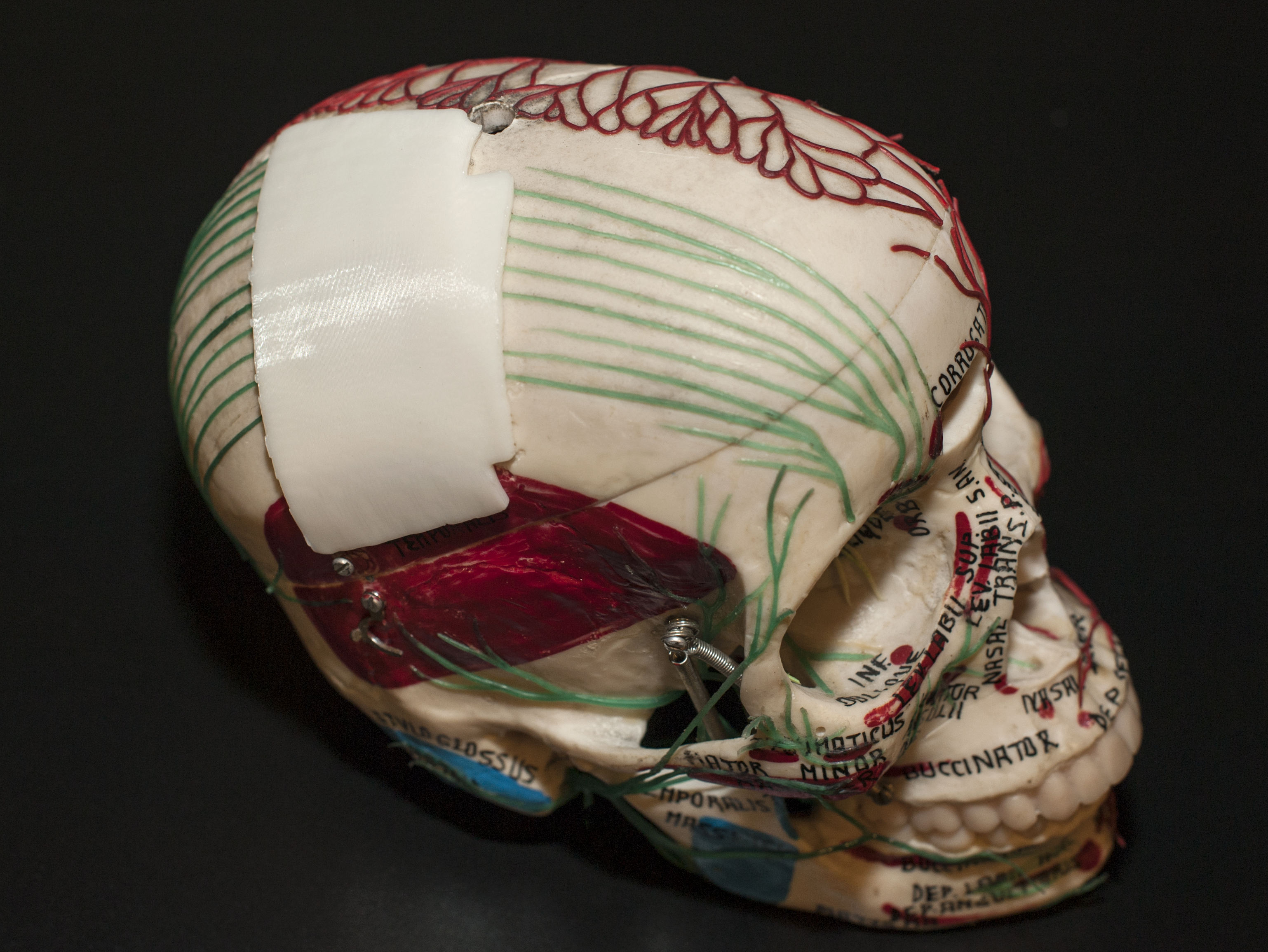 Mock 3-D printed skull plate (cranioplasty) – the real medical device is used for patients who need a portion of their skull replaced. This photo is free of all copyright restrictions and available for use and redistribution without permission. Credit to the U.S. Food and Drug Administration is appreciated but not required. For more privacy and use information visit: FDA photo by Michael J. Ermarth